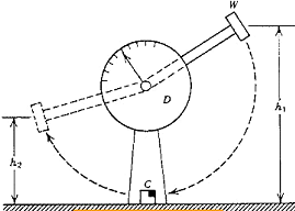 This image describes how the Izod test is done.